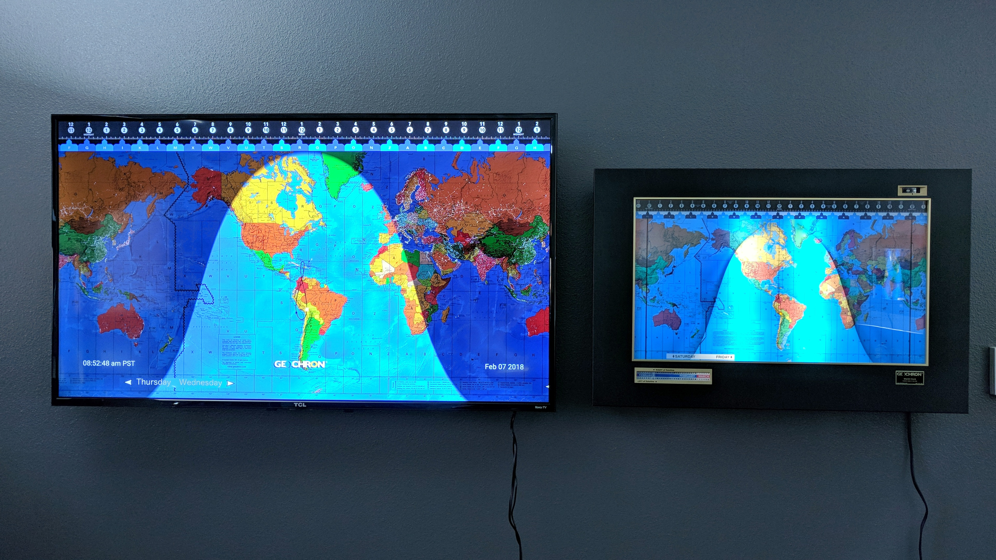 side by side comparison of digital 4k on a 44" screen, and the mechanical world clock